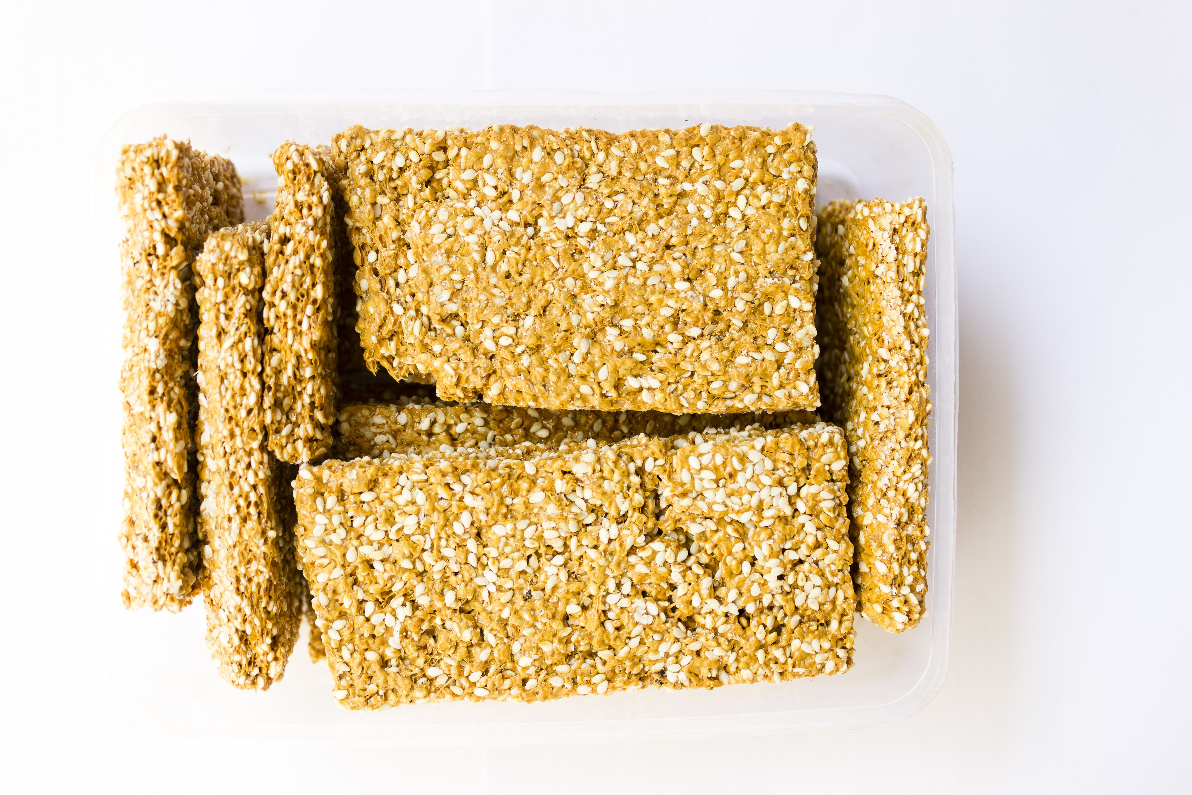 Tilkut ~ Sweet savoury made from jaggery paste and sesame seeds during festivals like "Sankaranti"